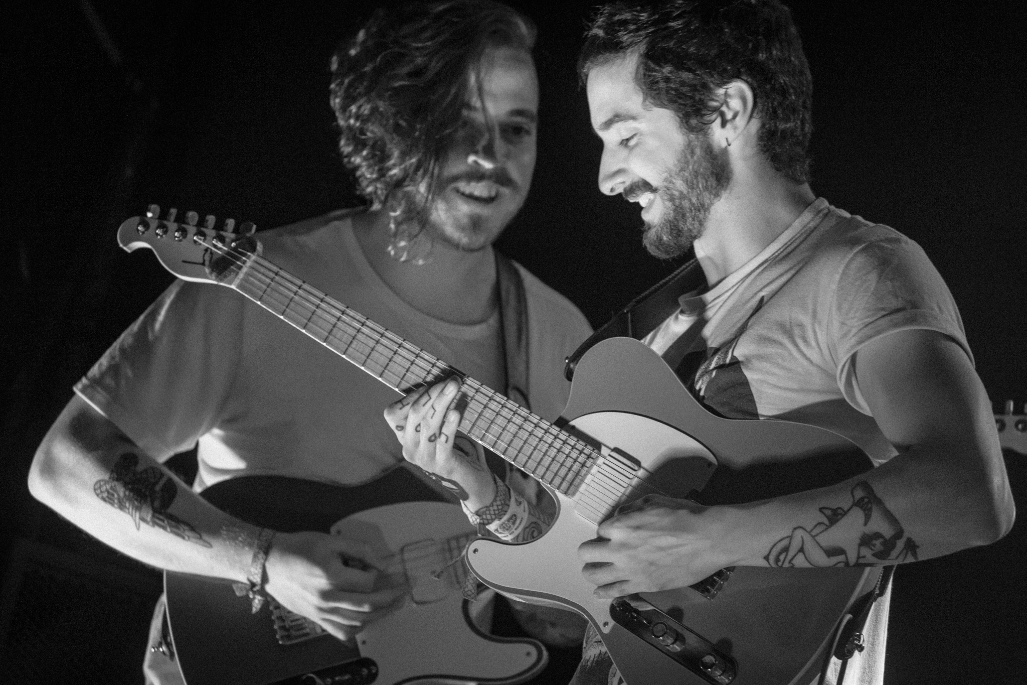 The Safety Fire performing at the Euroblast Festival in Cologne, October 2014